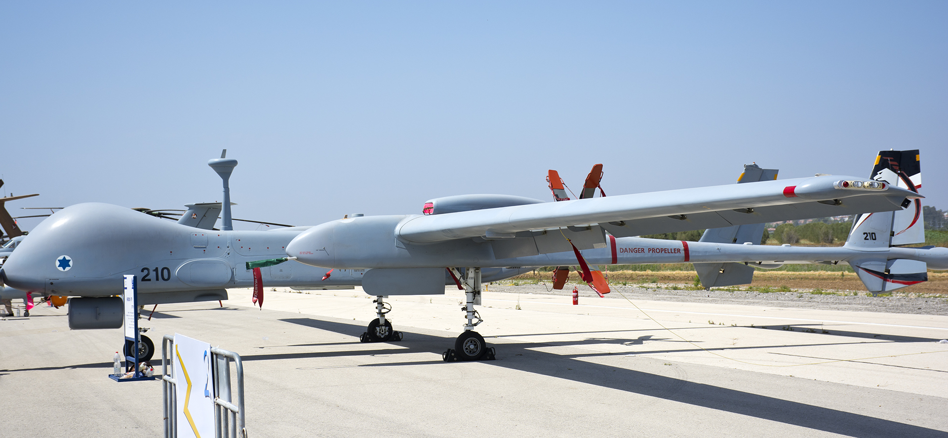 IAF Eitan (Heron TP) UAV (drone), Israeli Air Force, Independence Day 2017